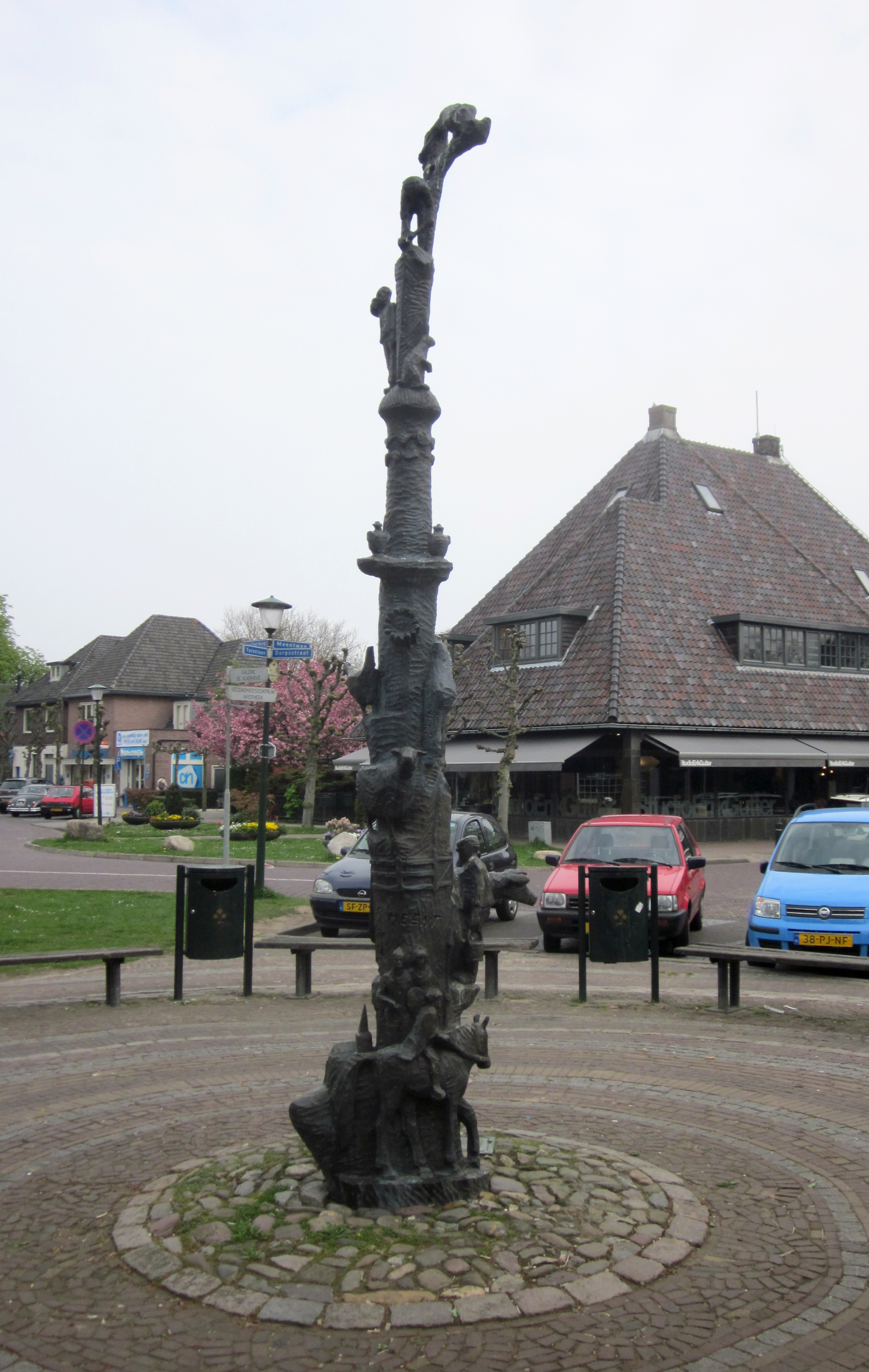 Sculpture "Erfgooiersboom" at the corner of the Torenlaan/Dorpsstraat in Blaricum. Sculpted by Gerard Lanphen in 1971 in wood. In 1985 the sculpture was copied in bronze and placed at its current location. The wooden sculpture can be seen in the NH Kerk in Blaricum at the Torenlaan.